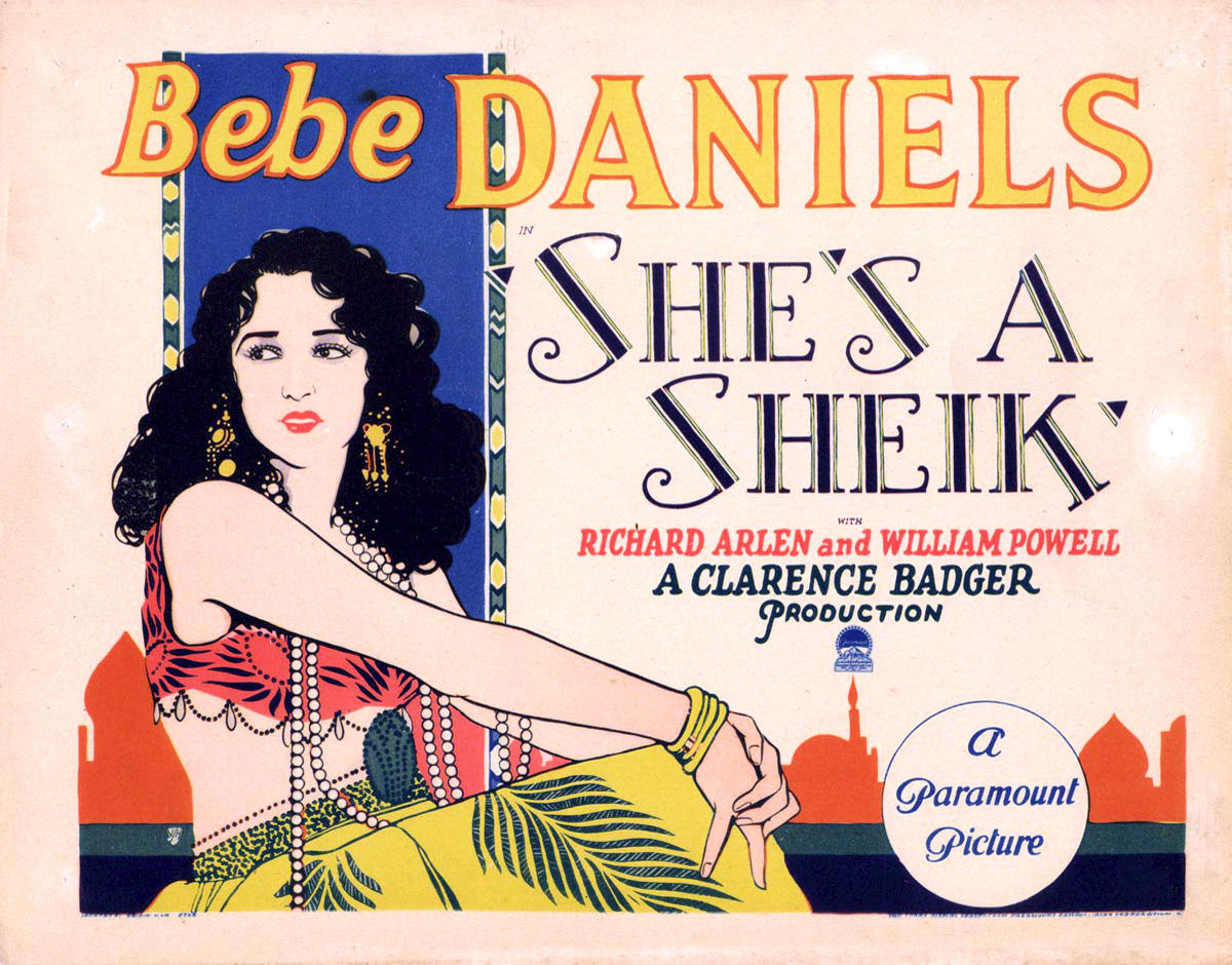 Lobby card for the American comedy film She's a Sheik (1927). There are no copyright marks on the item. At lower left is Country of origin USA. At lower right is This lobby display leased from Paramount Famous Players Lasky Corporation.